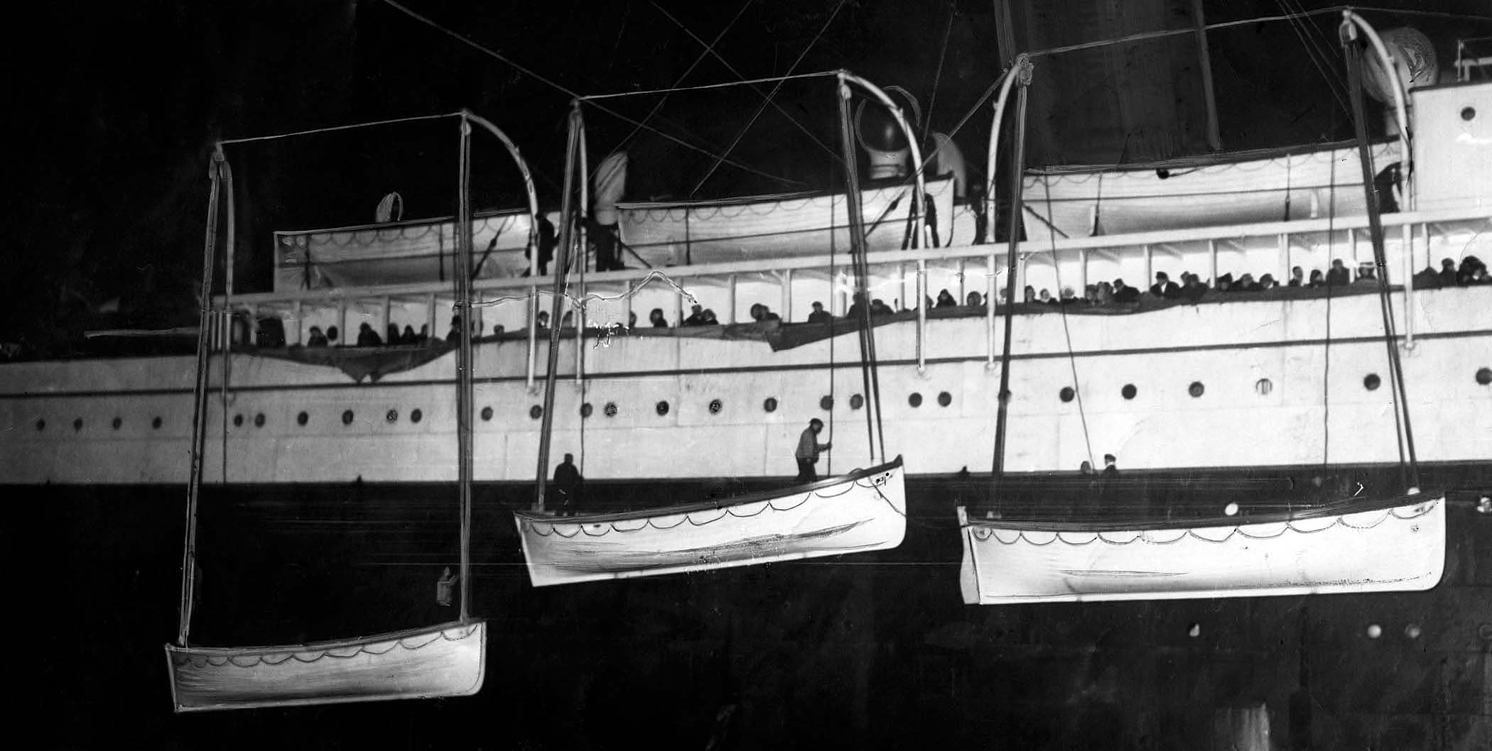 Lifeboats from the RMS Titanic are uploaded to the RMS Carpathia in the hours after the sinking.